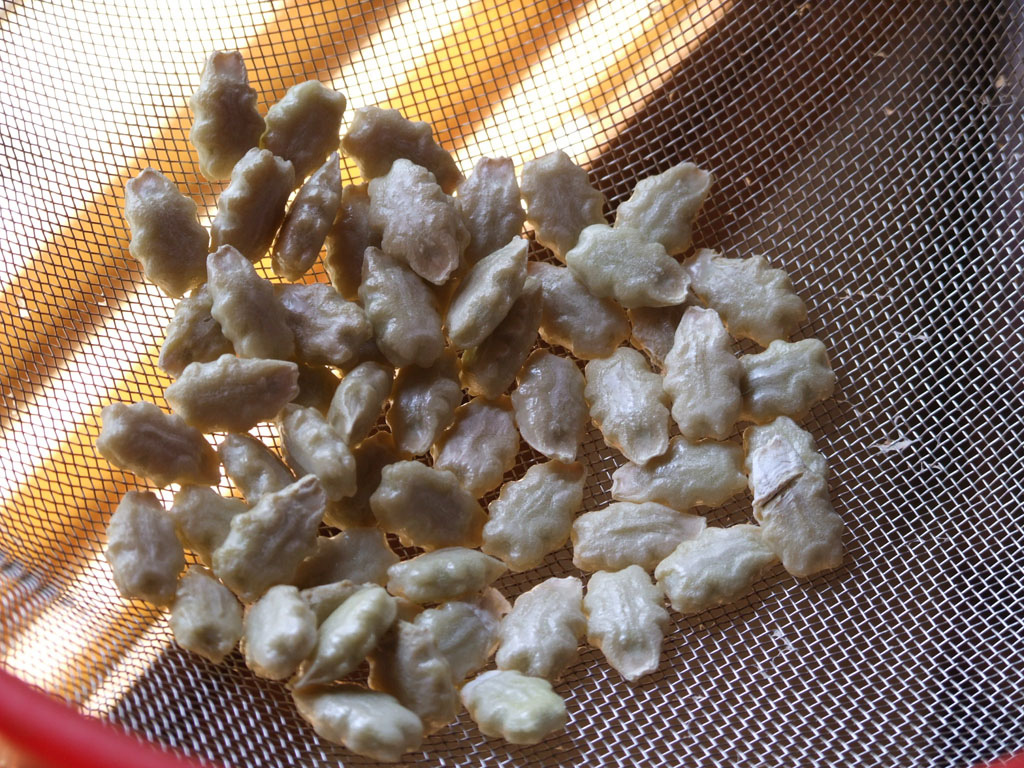 Momordica charantia, Bitter Melon, Dried seeds